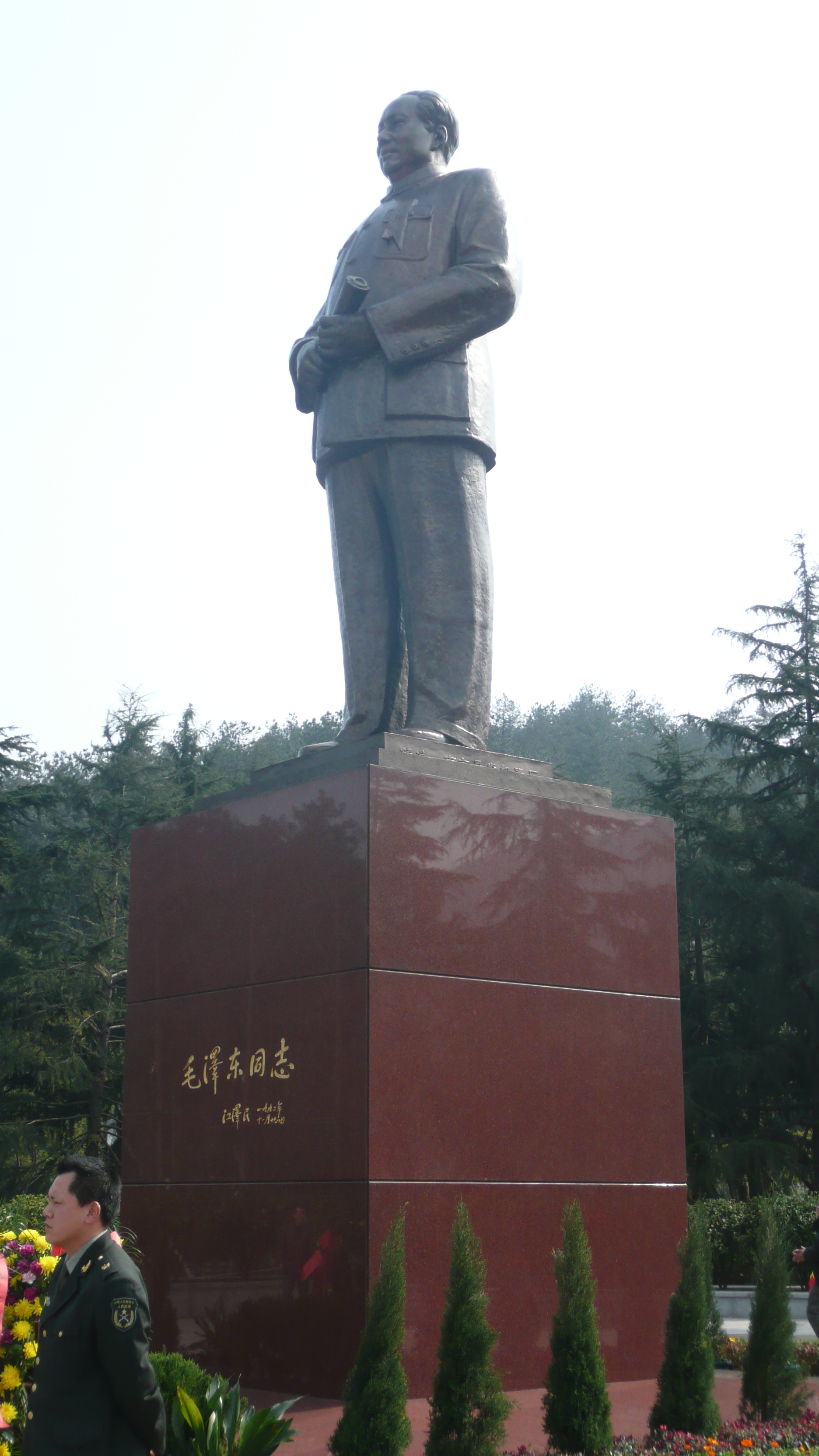 Statue of Mao Zedong in Shaoshan